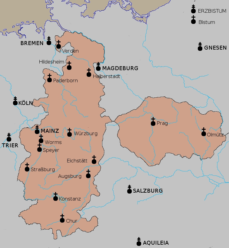 historical ecclesiatical province of Mainz (AD 1000)